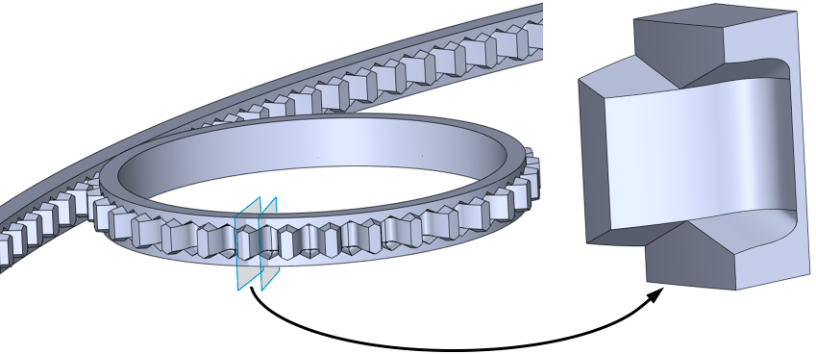 Skew teeth bearing gears engagement with erlaged view of half of teeth